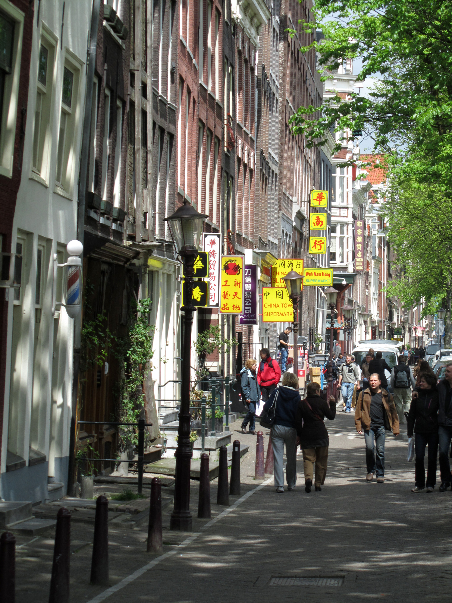 Geldersekade canal, Chinatown, Amsterdam